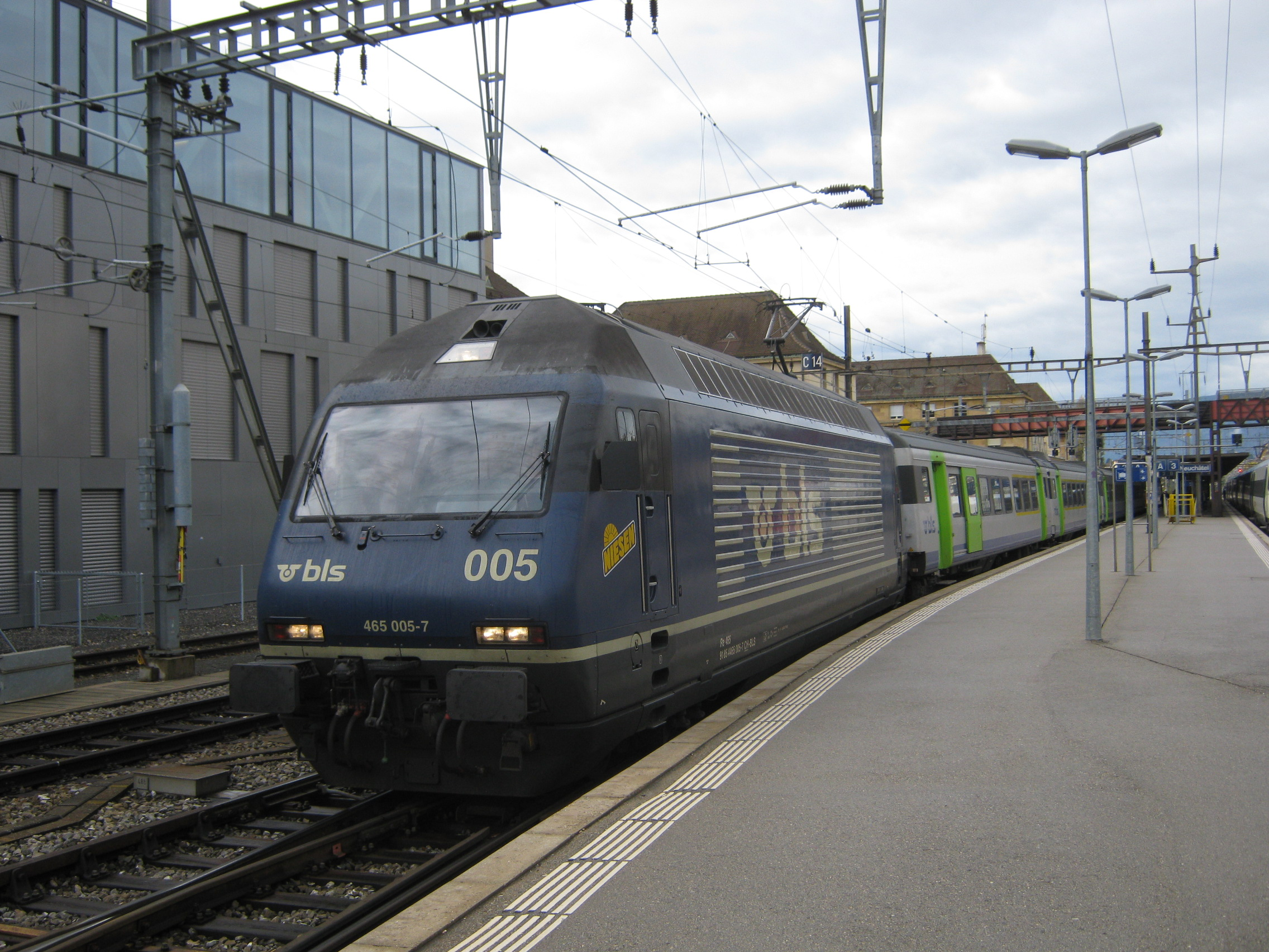 A BLS Re 465 in the station of Neuchâtel, leading the RegioExpress to Bern